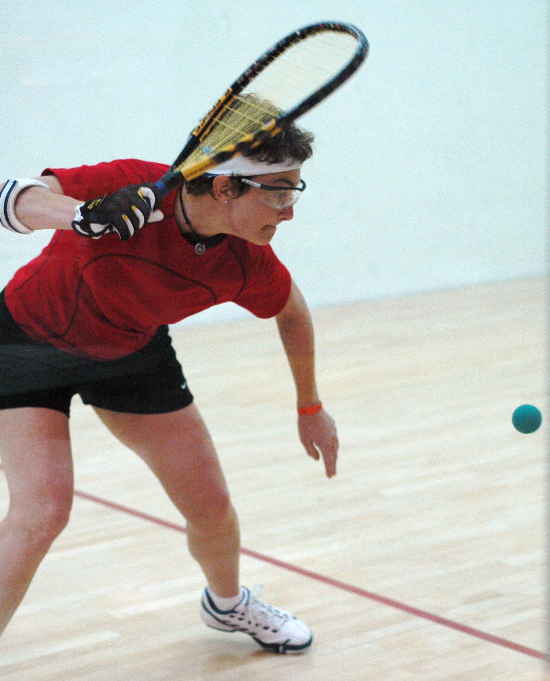 Josée Grand'Maître at 2006 IRF World Racquetball Championships in Santo Domingo, Dominican Republic